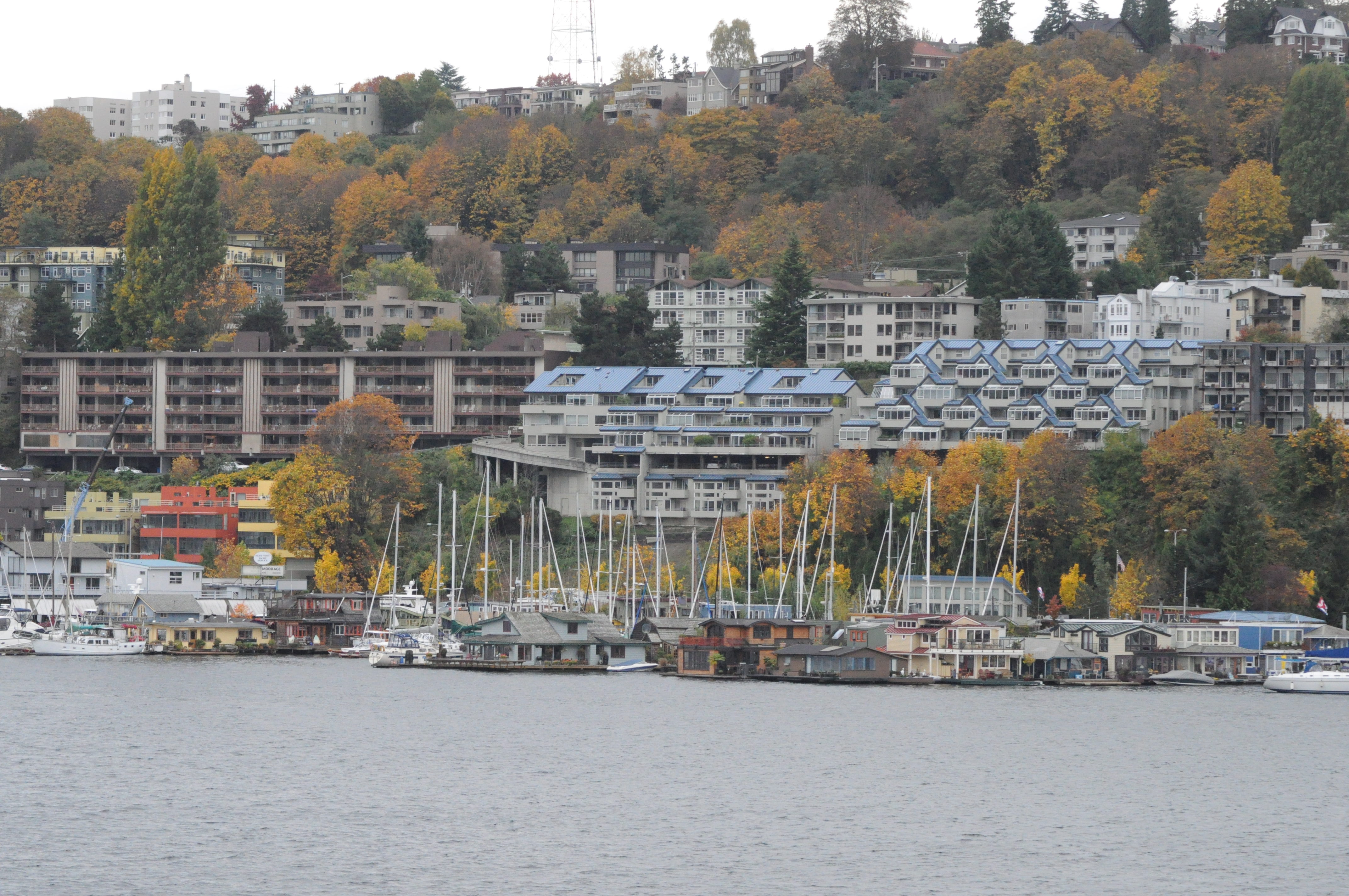 Floating homes on the west side of Lake Union seen from Gas Works Park, Seattle, Washington. Part of Queen Anne Hill in background. This image was created with Hugin